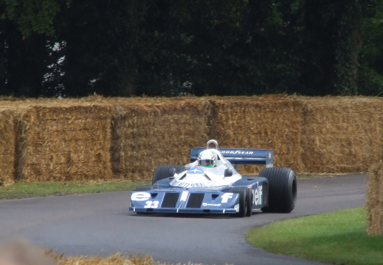 Tyrell P34 on the Hill Climb at the Festival of Speed 2007